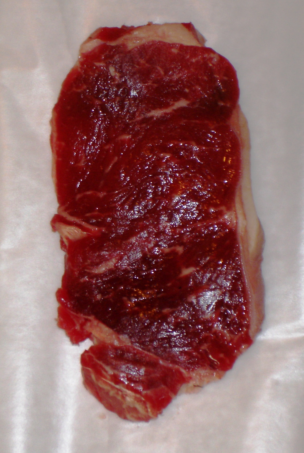 Contre-filet (strip steak), also referred to nowadays as an entrecôte although it is not a traditional entrecôte (rib-eye steak)